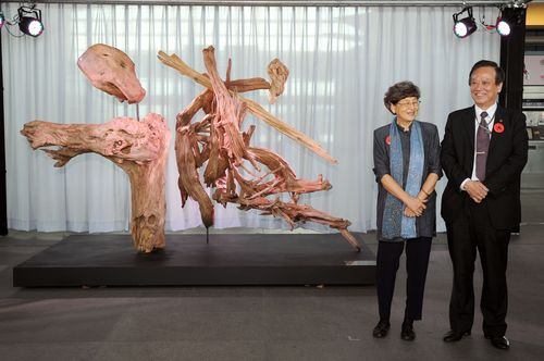 One Word Maxim –“Trustworthiness” Exhibition in THSR Taichung Station, 2011